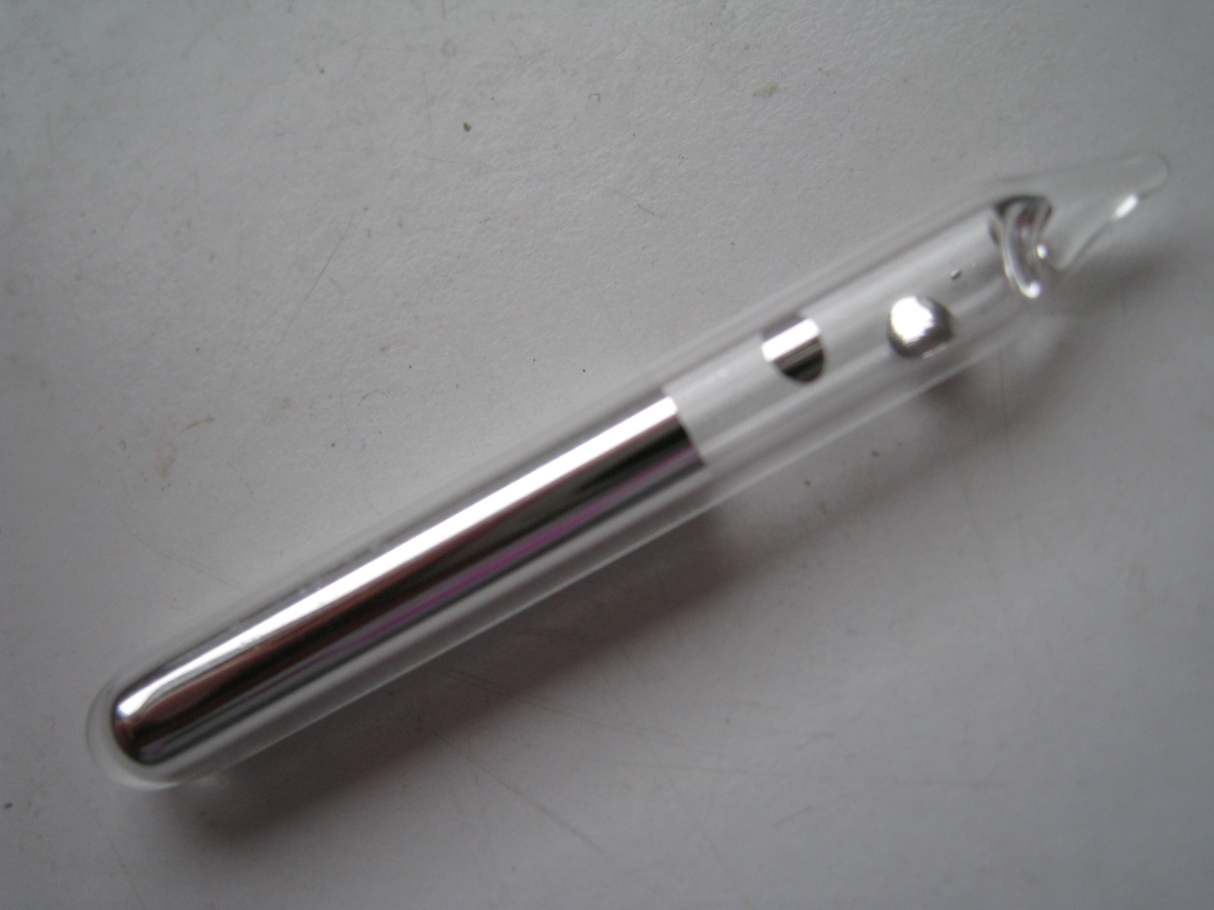 Rubidium metal from the Dennis s.k collection.